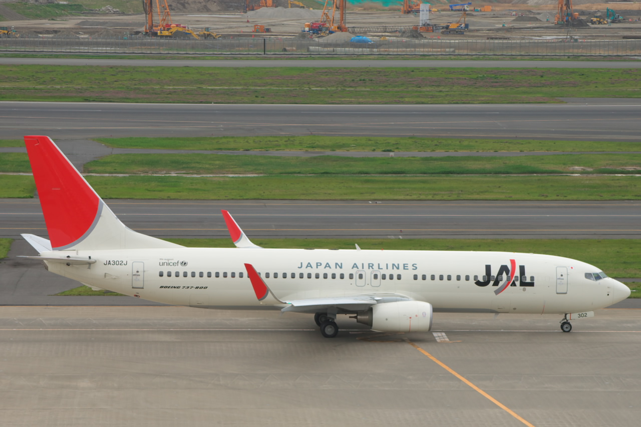 JAL Boeing 737-846(JA302J) is taxing to RW16L end. 羽田空港の16L滑走路端に移動中のB737-846。 [MAP by ALPSLAB]